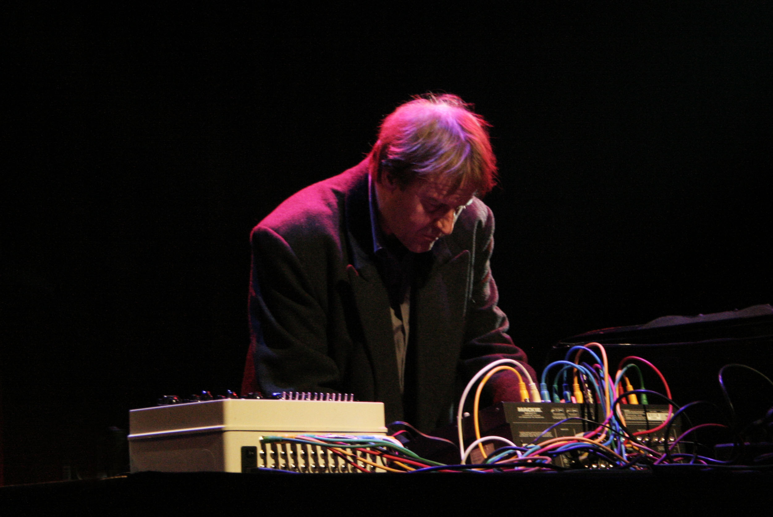 Carl Michael von Hausswolff on Sonic Acts 12.